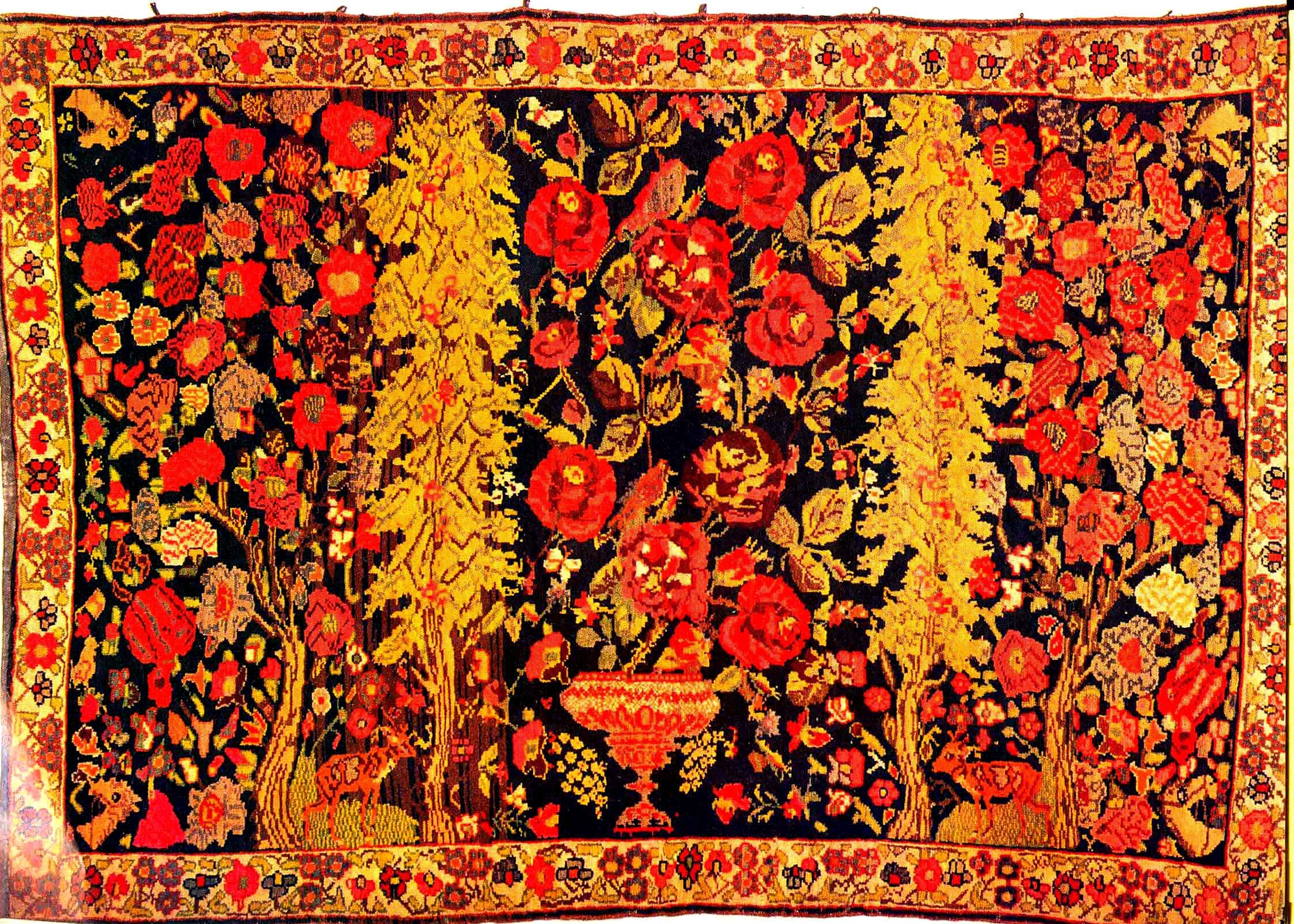 Baghchadaguller rug, Karabakh school, XIX c.